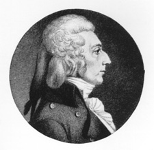 Portrait of Senator Christopher Grant Champlin of Rhode Island, engraving by Charles Balthazar Julien Févret de Saint-Mémin